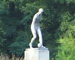 Football player statue the stadium's south-eastern corner the top. Made in: 1963.